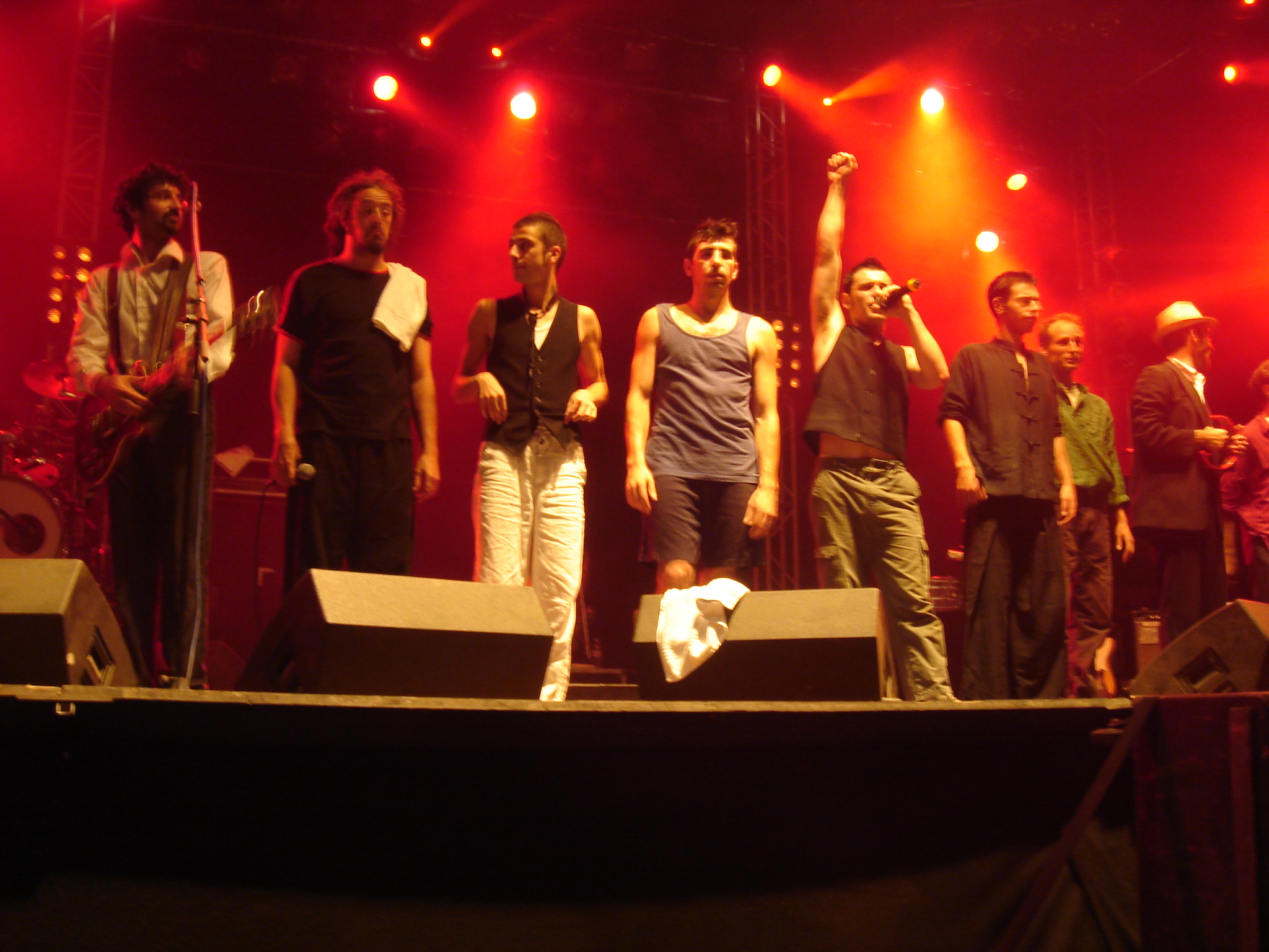 Live Auftritt Babylon Circus